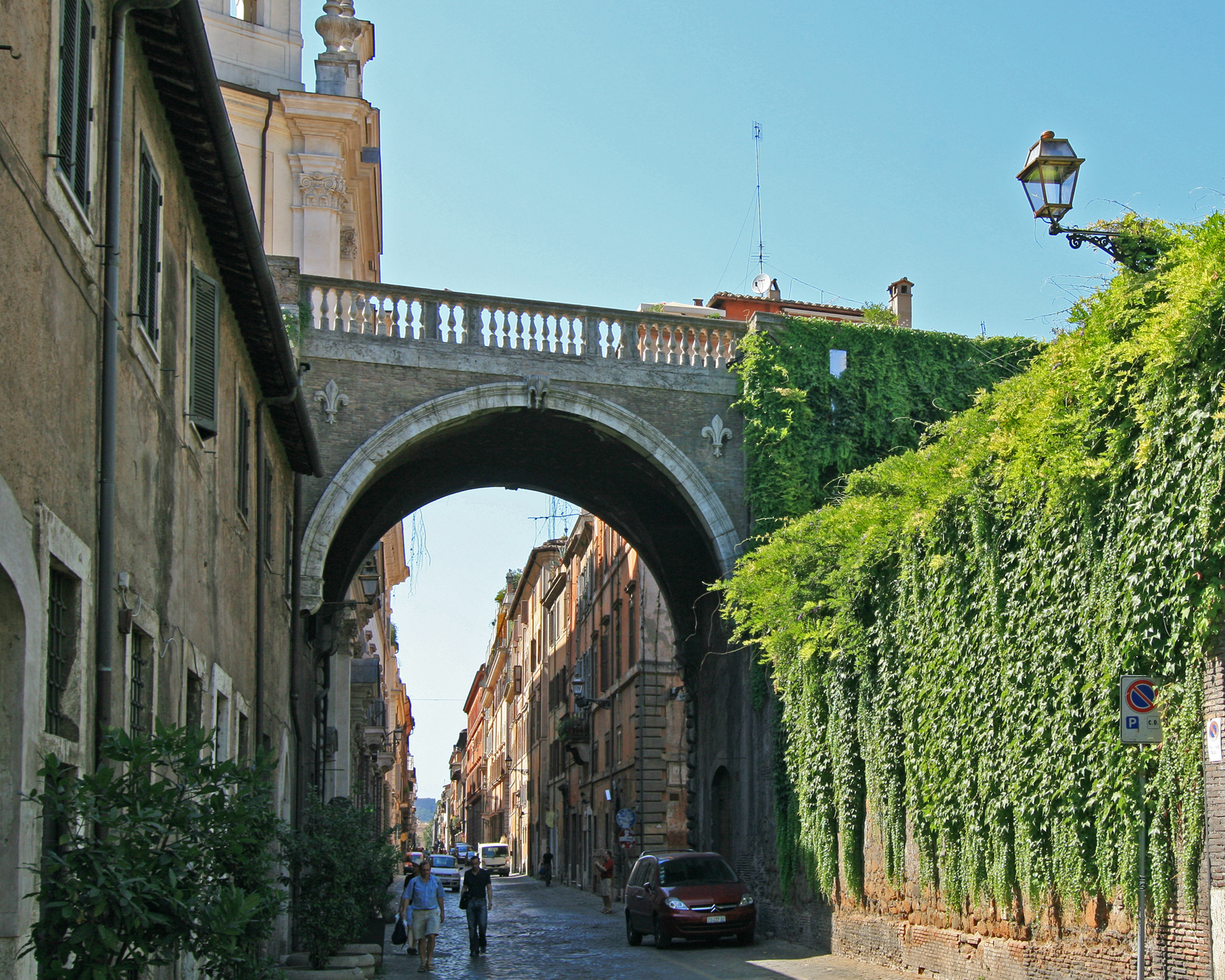 Farnese Arch, Via Giulia, Rome